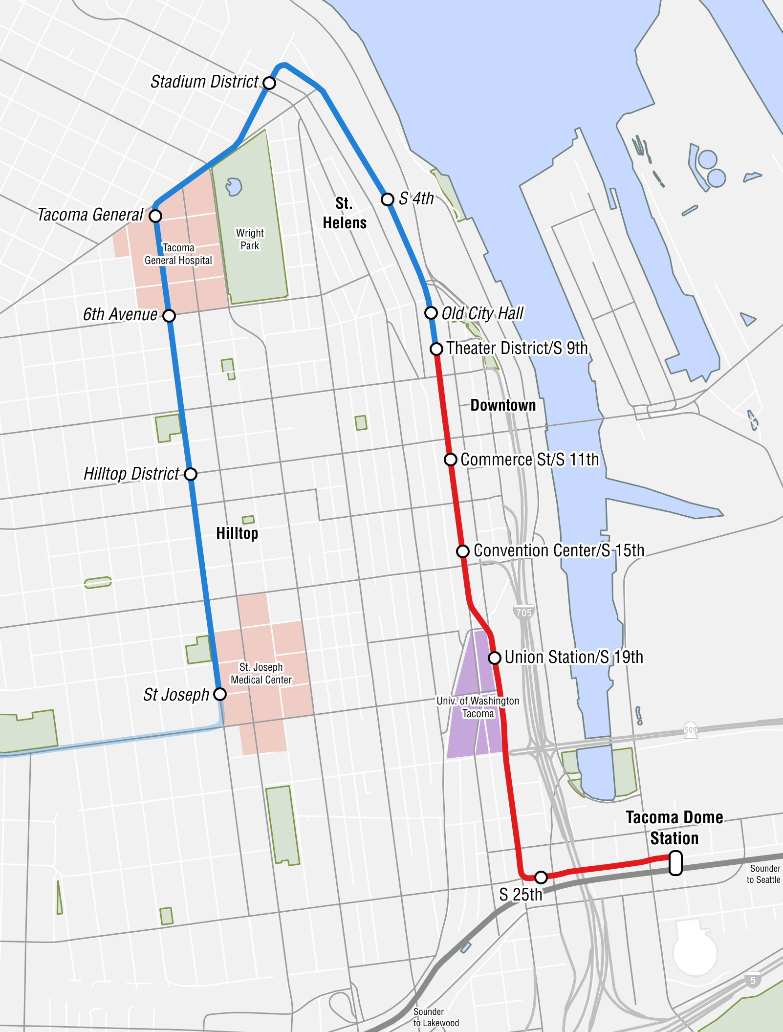 A map of Tacoma Link, a streetcar system serving Tacoma, Washington, US. The original line, marked in red, opened in 2003. An extension, marked in blue with italicized station names, is planned to open in 2022. Sounder commuter rail is marked in dark gray.